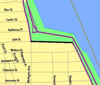 Map of the location of East Lake Shore Drive District